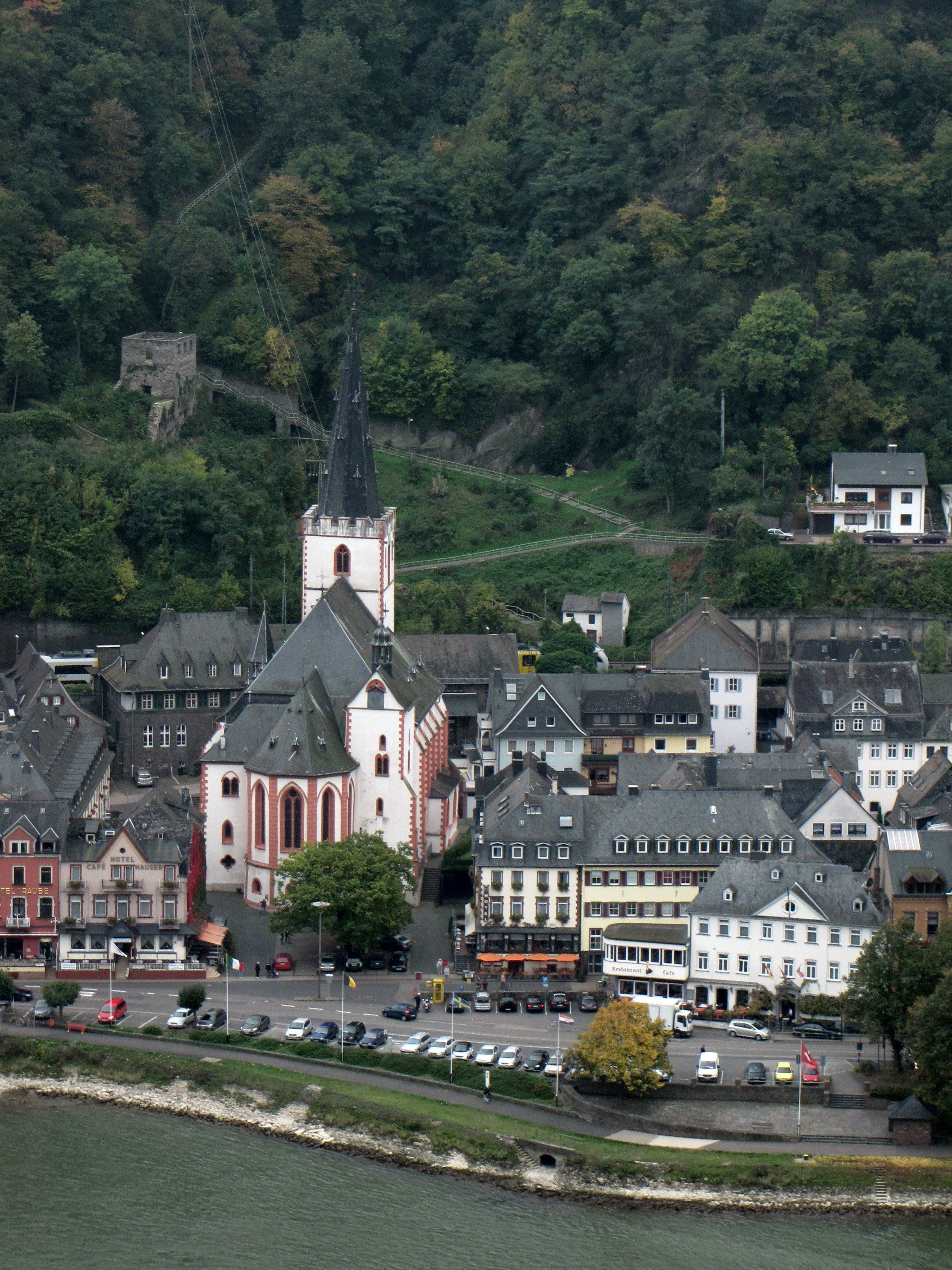 Stiftskirche Sankt Goar